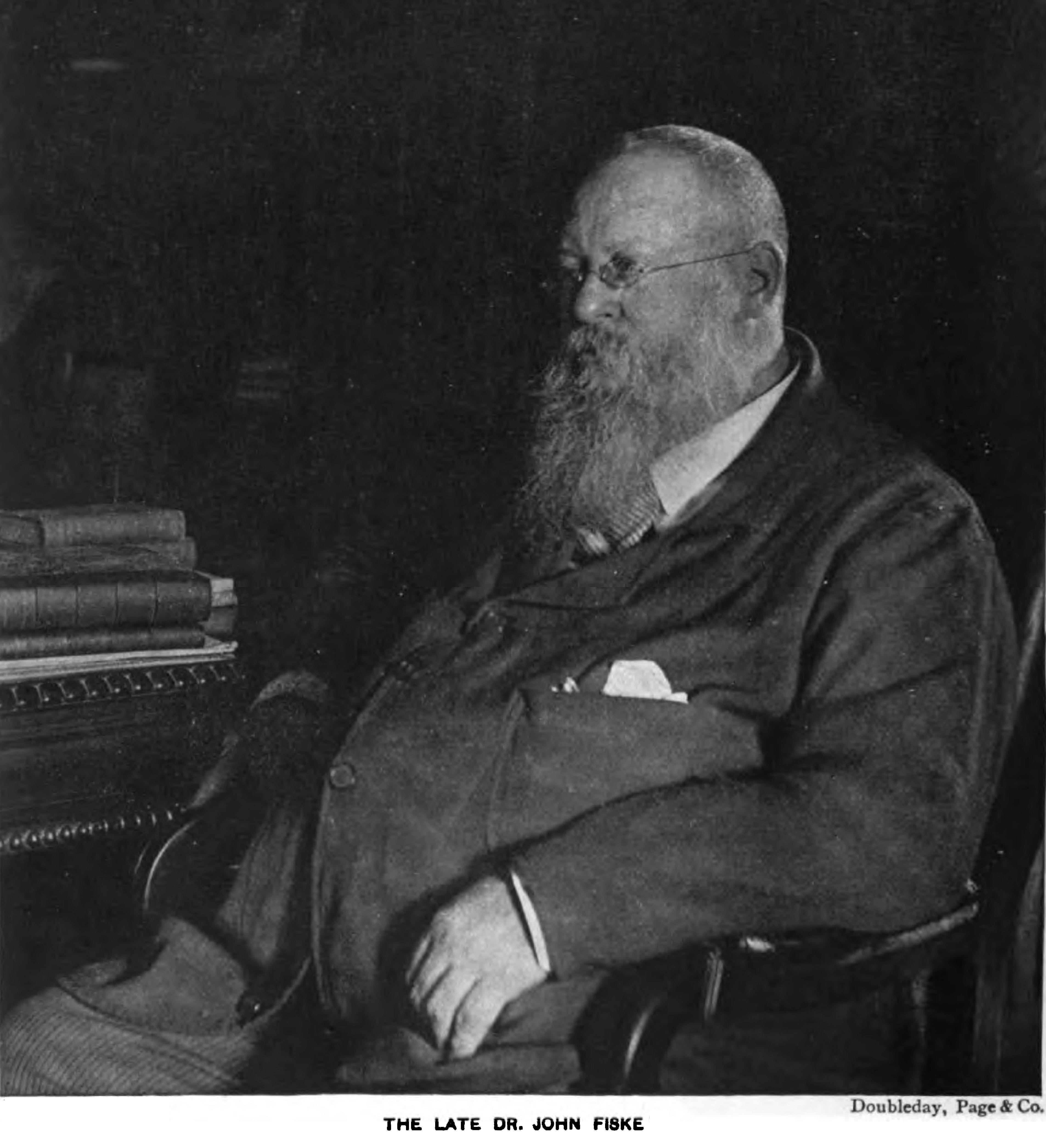 John Fiske (March 30, 1842 – July 4, 1901) was an American philosopher and historian.